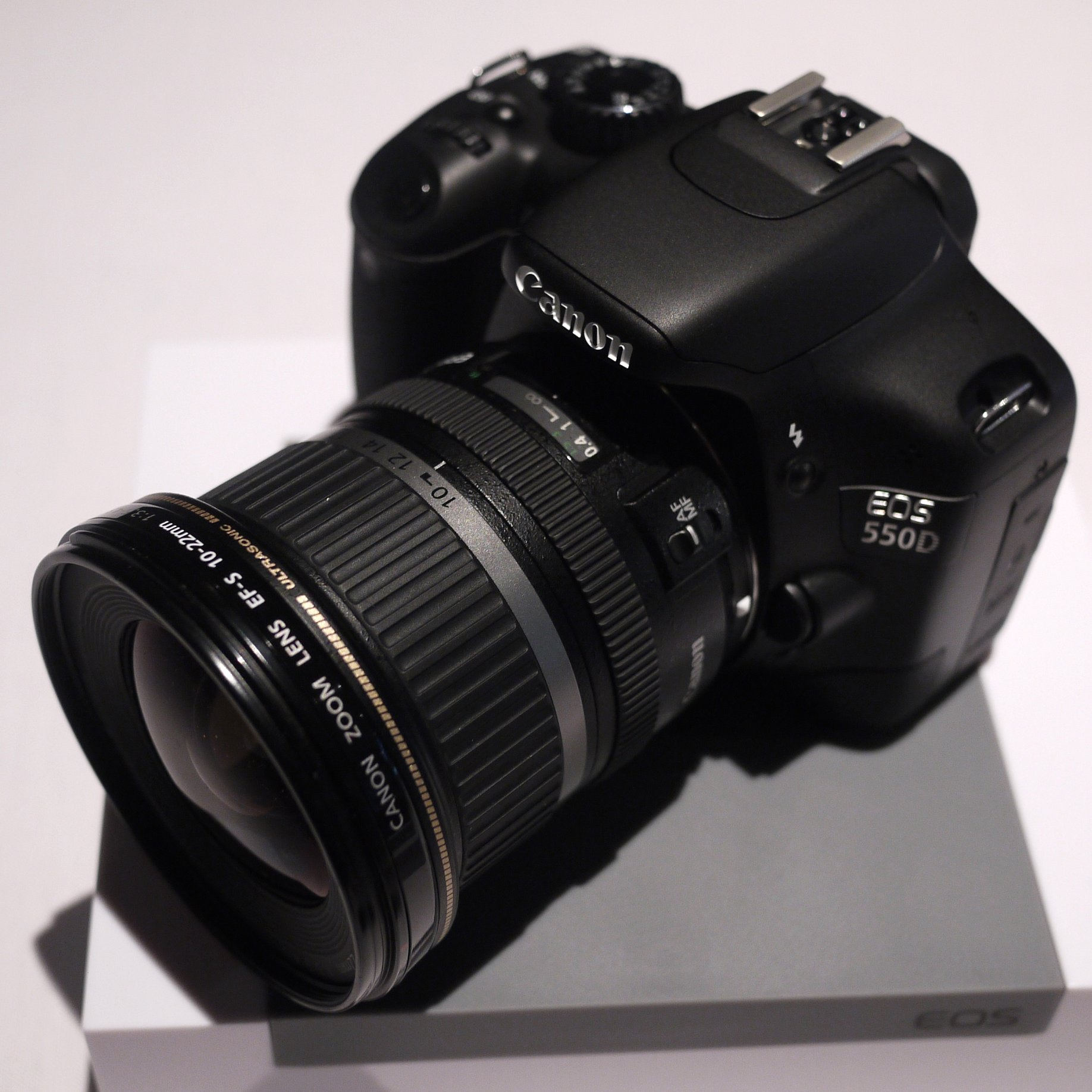 A Canon EOS 550D DSLR with a Canon EF-S 10-22mm lens